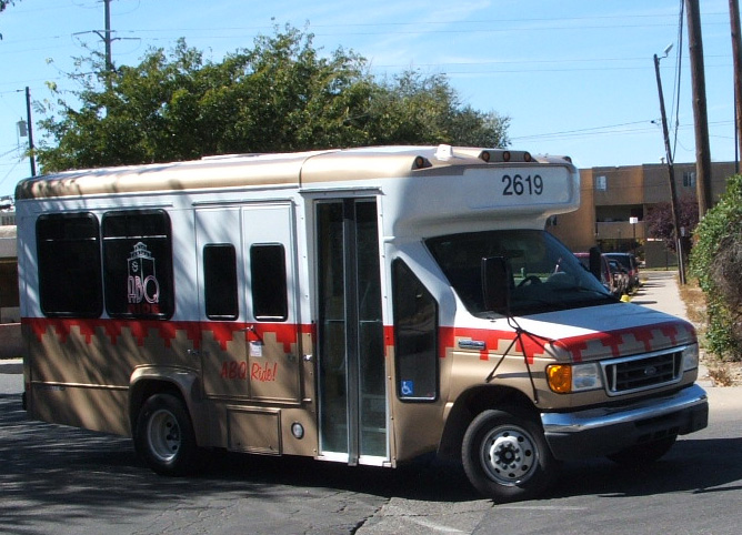 A paratransit vehicle owned by ABQ RIDE in Albuquerque, New Mexico. A paratransit vehicle owned by ABQ RIDE in Albuquerque, New Mexico.